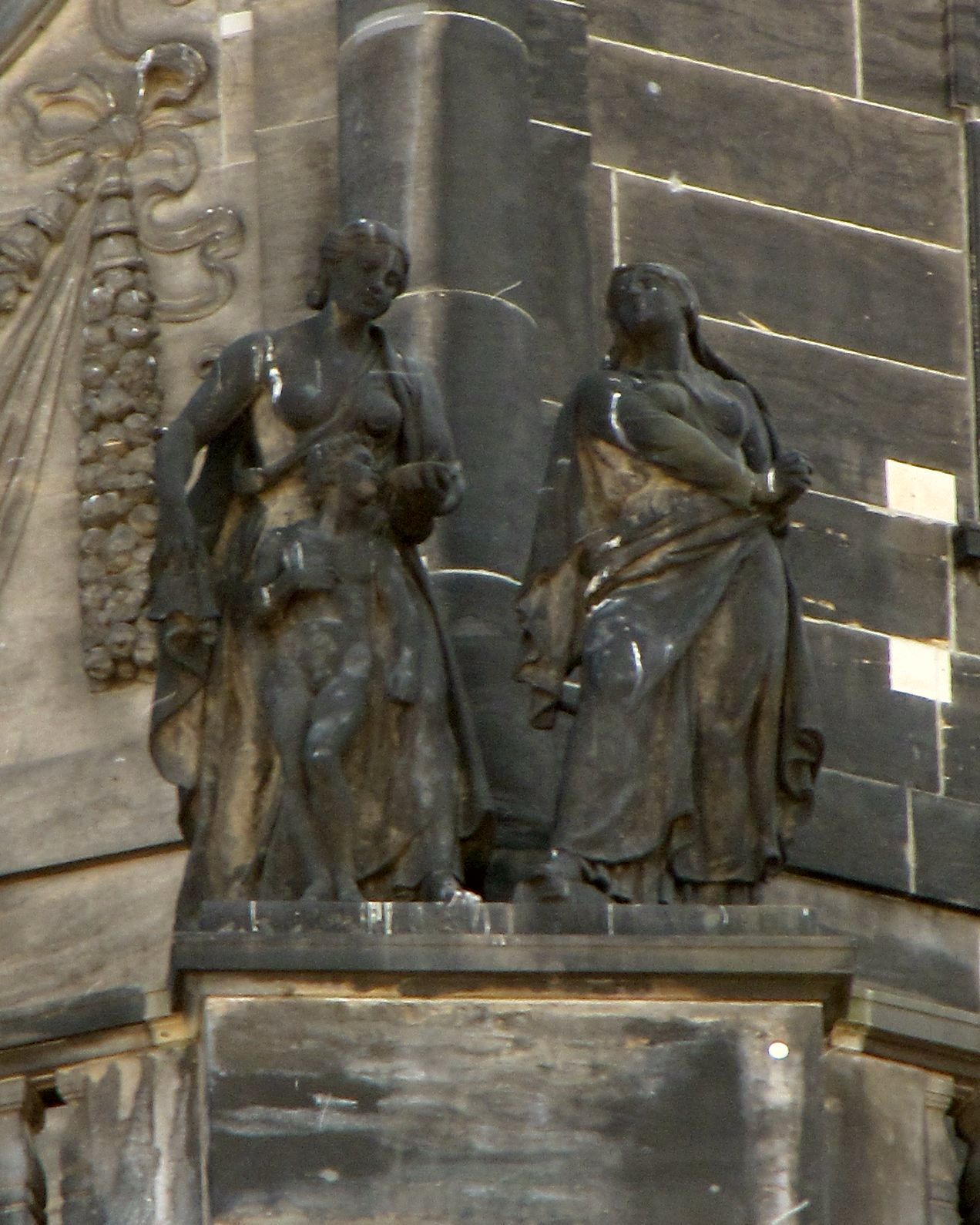 Virtue statues „Barmherzigkeit“ (mercy) and „Treue“ (piety) at Neues Rathaus, Dresden